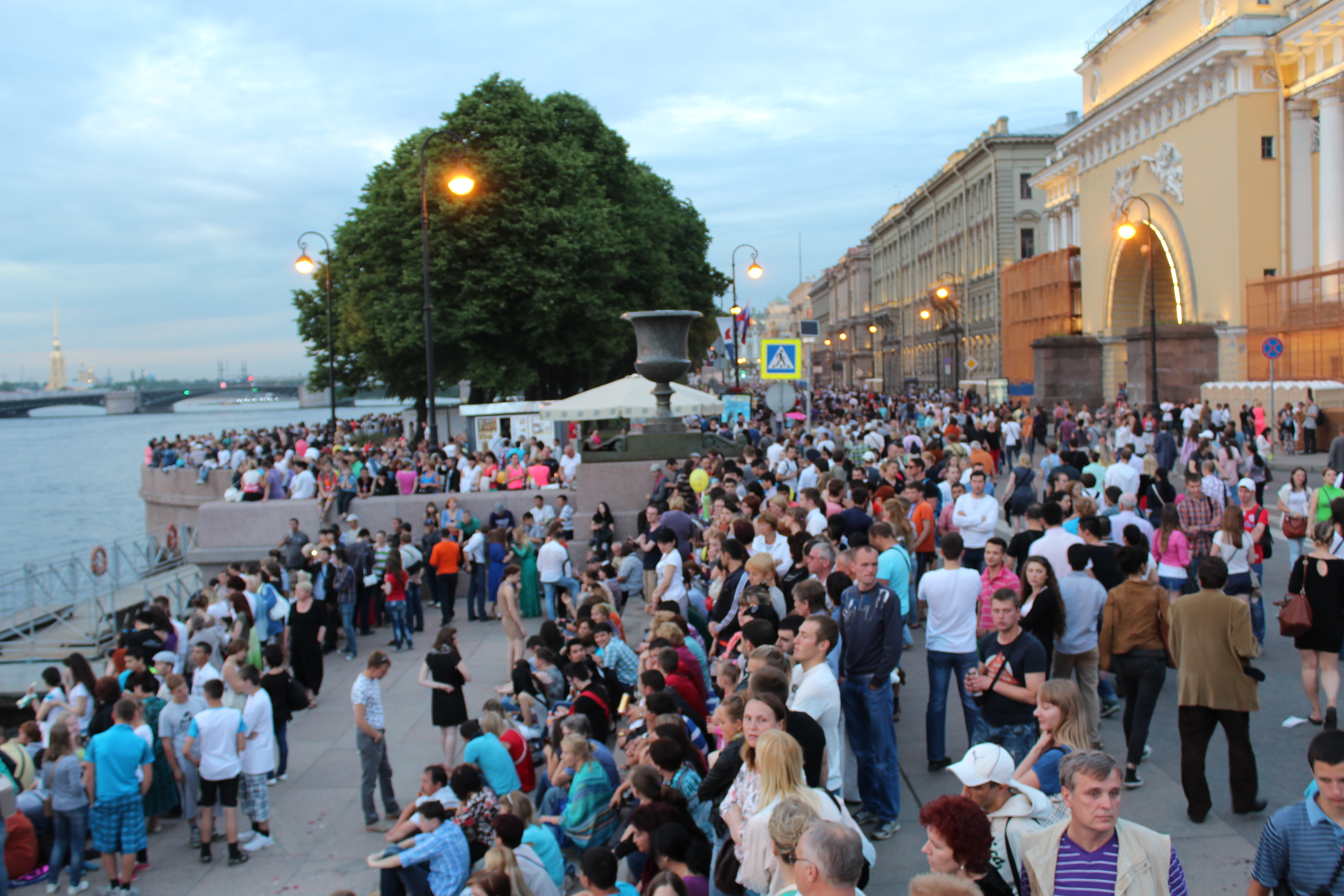 Admiralty Embankment of Neva River in Saint Petersburg at nightime (23:30), during the White nights in Saint Petersburg